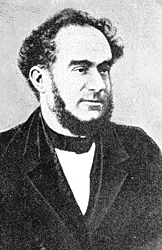 Carlo Matteicci, Italian physicist and electrophysiology pioneer.